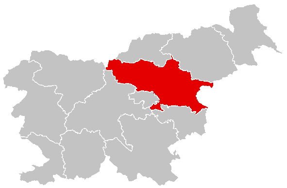 Map representing the Savinjska statistical rehion of Slovenia modified from File:Slovenian-regions-obalnokraska.png